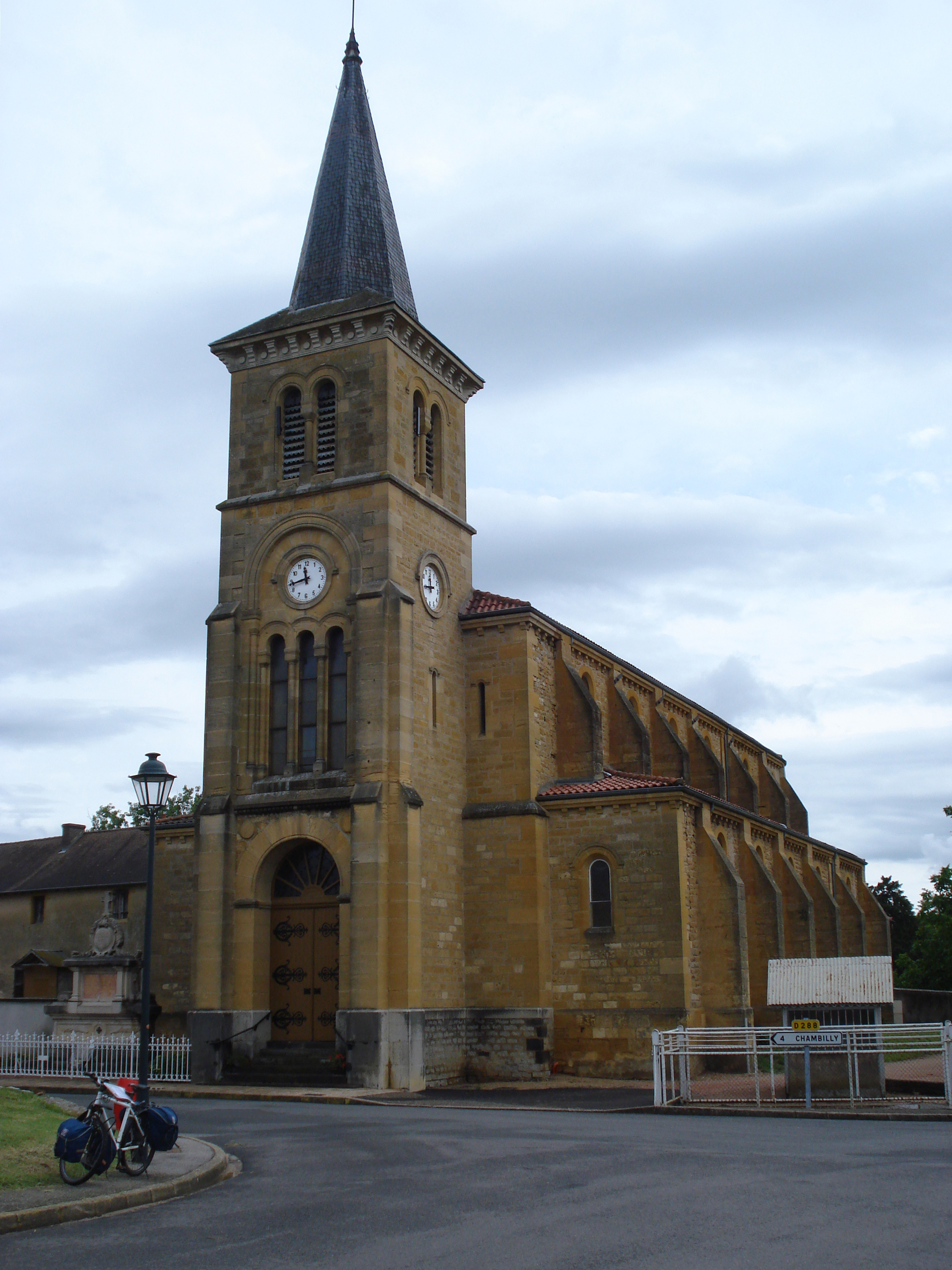 Artaix (Saône-et-Loire, Fr), l'église.